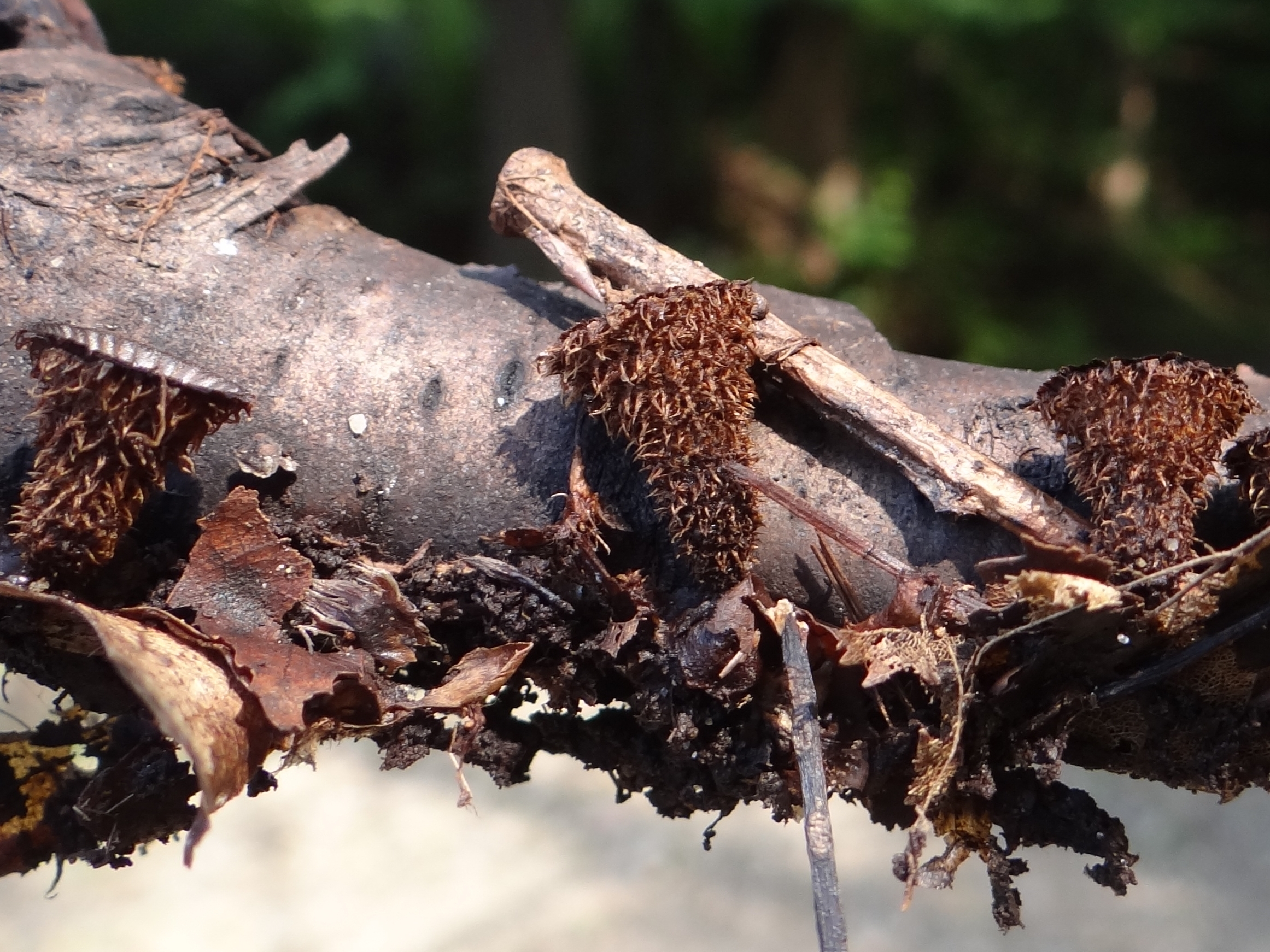 Cyathus striatus